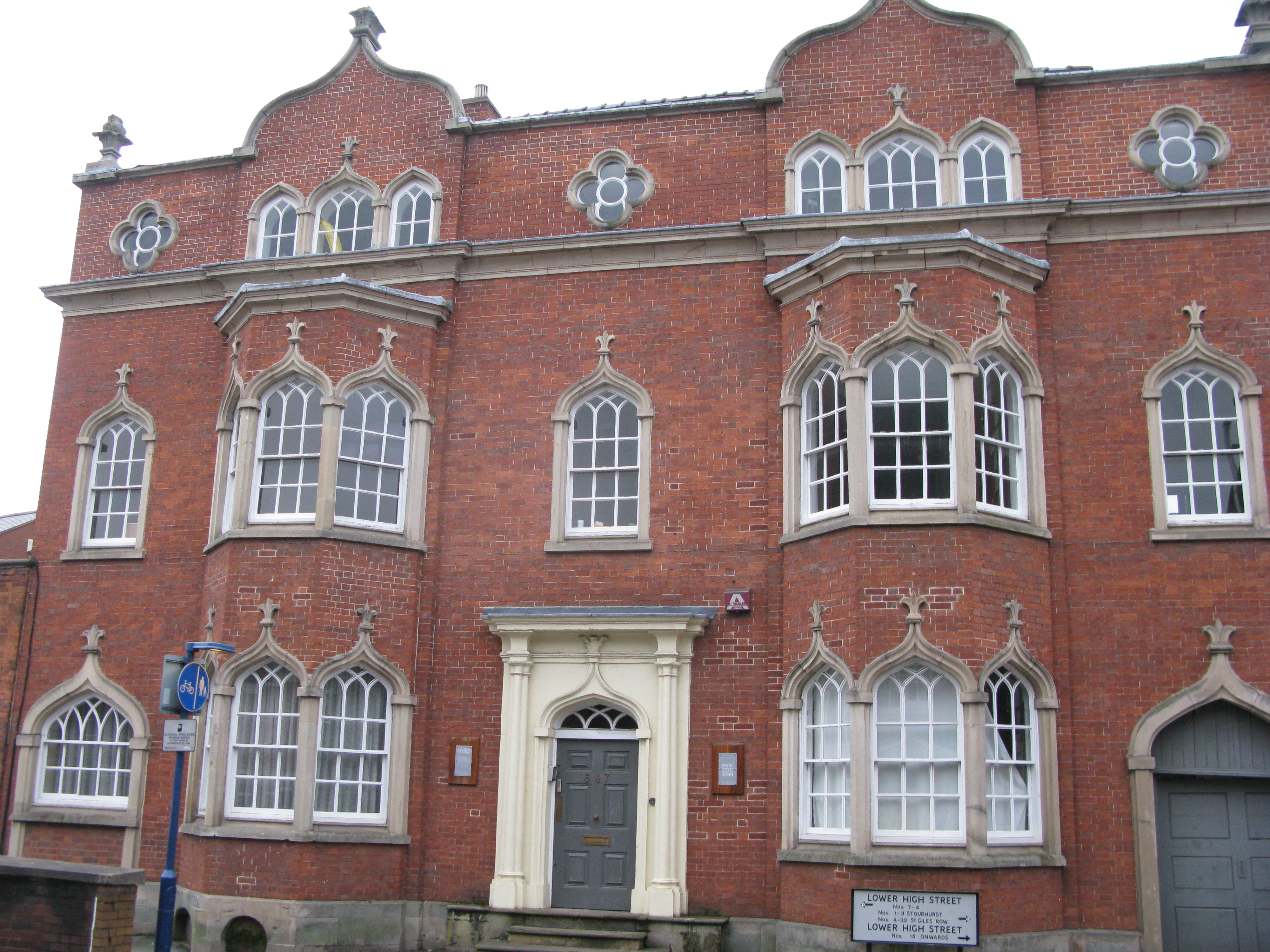 Grade II